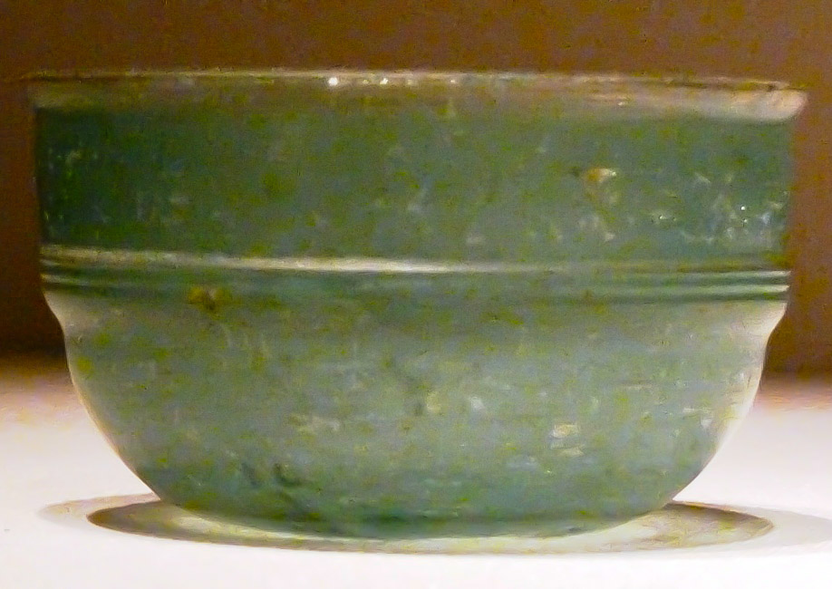 An ancient Roman green glass cup discovered in an Eastern Han tomb of Guangxi, China, dated to the Eastern Han period (25-220 AD). Photo taken in the National Museum, Beijing.